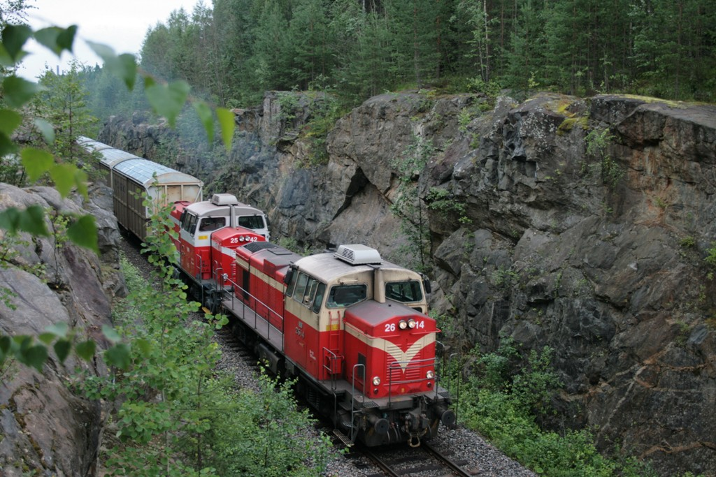 A freight train in Varkaus, Finland